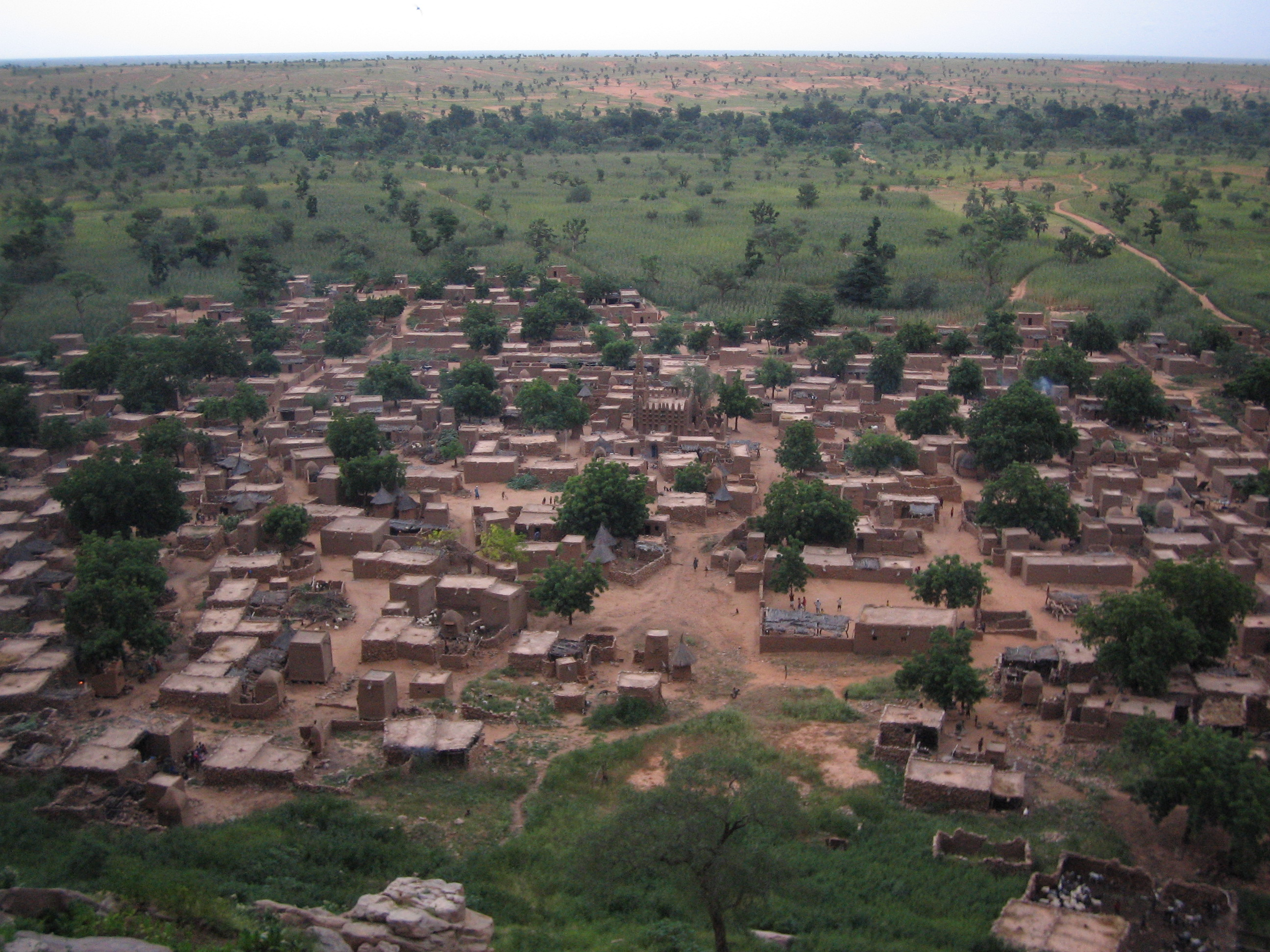 A modern Dogon village near the Bandiagara escarpment, Dogon country, Mali.